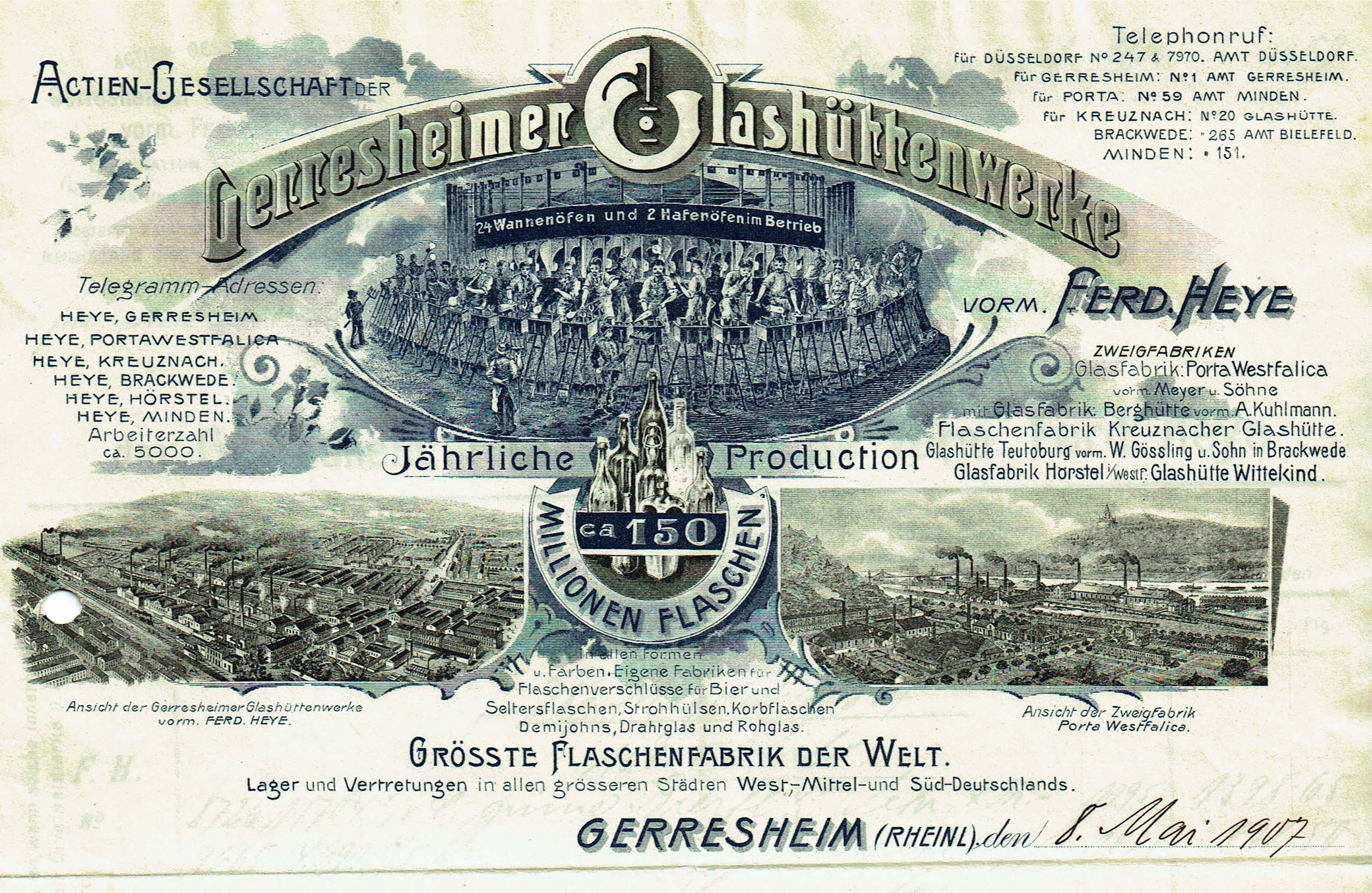 Header of an invoice from the AG Gerresheimer Glashüttenwerke, issued 1907